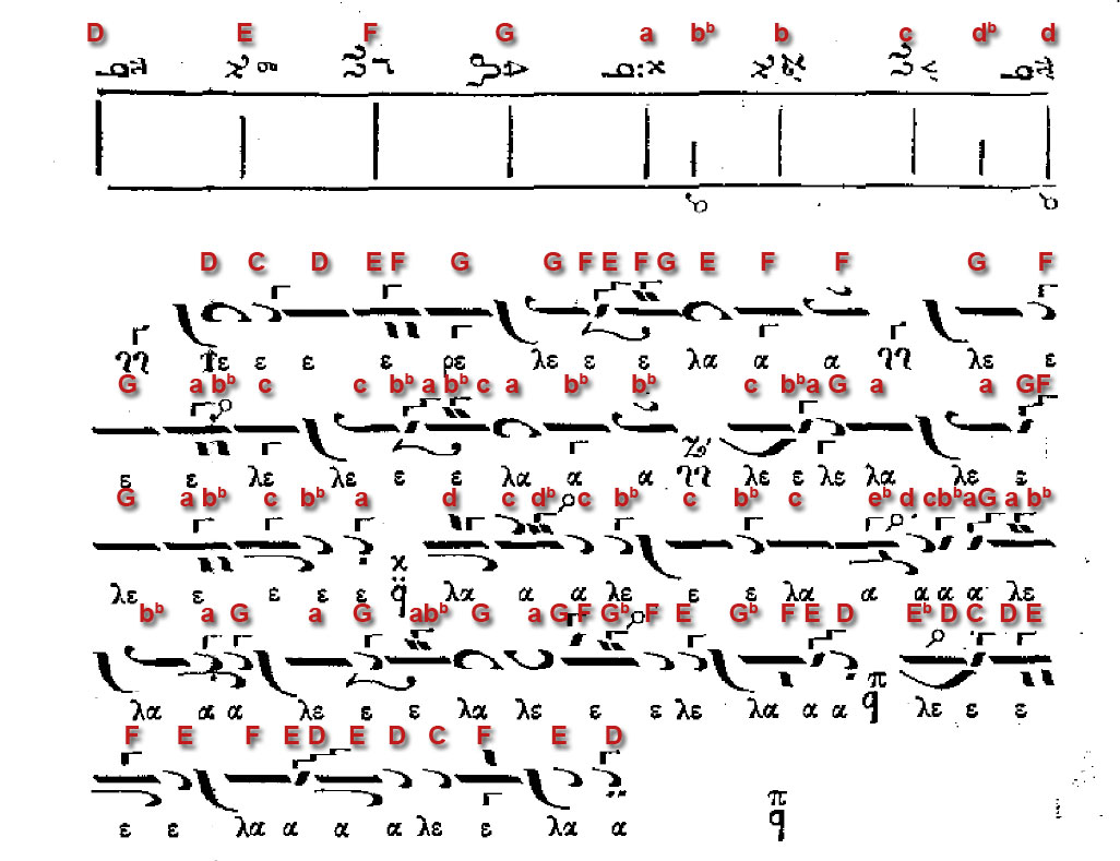 Phthora atzem (zeyir of makam acem notated in Chrysantine neumes) Panagiotes Keltzanides Μεθοδική διδασκαλία θεωρητική τὲ καὶ πρακτική πρὸς ἐκμάθησιν καὶ διάδοσιν τοῦ γνησίου ἐξωτερικοῦ μέλους τῆς καθ᾿ ἡμᾶς Ἑλληνικῆς Μουσικῆς κατ᾿ ἀντιπαράθεσιν πρὸς τὴν Ἀραβοπερσικήν, Istanbul 1881, p. 81.